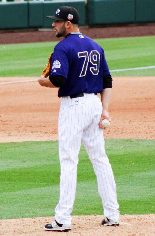 Matt Carasiti of the Colorado Rockies playing a spring training game against the San Diego Padres at Salt River Fields at Talking Stick.